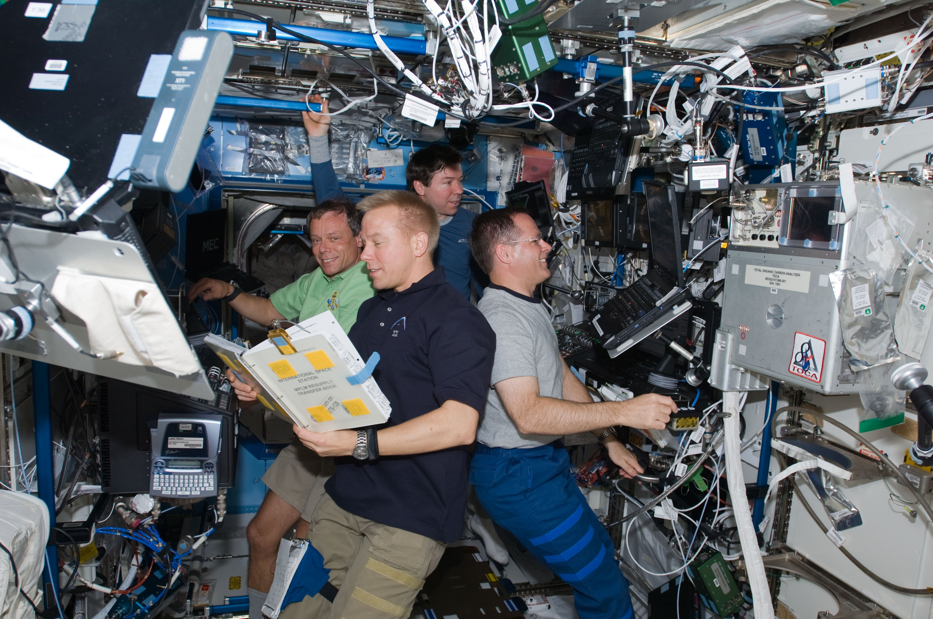 NASA astronaut Tim Kopra (left foreground) and European Space Agency astronaut Christer Fuglesang (left background), both STS-128 mission specialists; along with NASA astronauts Kevin Ford (right foreground), STS-128 pilot; and Michael Barratt, Expedition 20 flight engineer, are busy with various tasks in the Destiny laboratory of the International Space Station while Space Shuttle Discovery remains docked with the station.